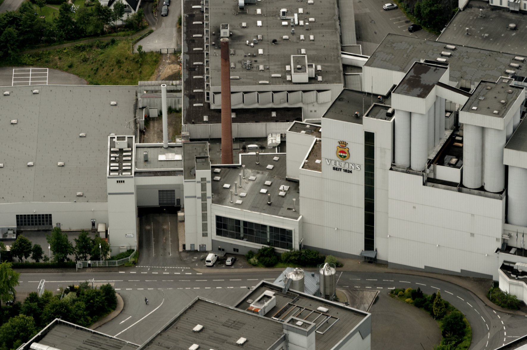 Meschede-Grevenstein: Veltinsbrauerei (Fotoflug Sauerland Nord) The making of this document was supported by the Community-Budget of Wikimedia Germany.